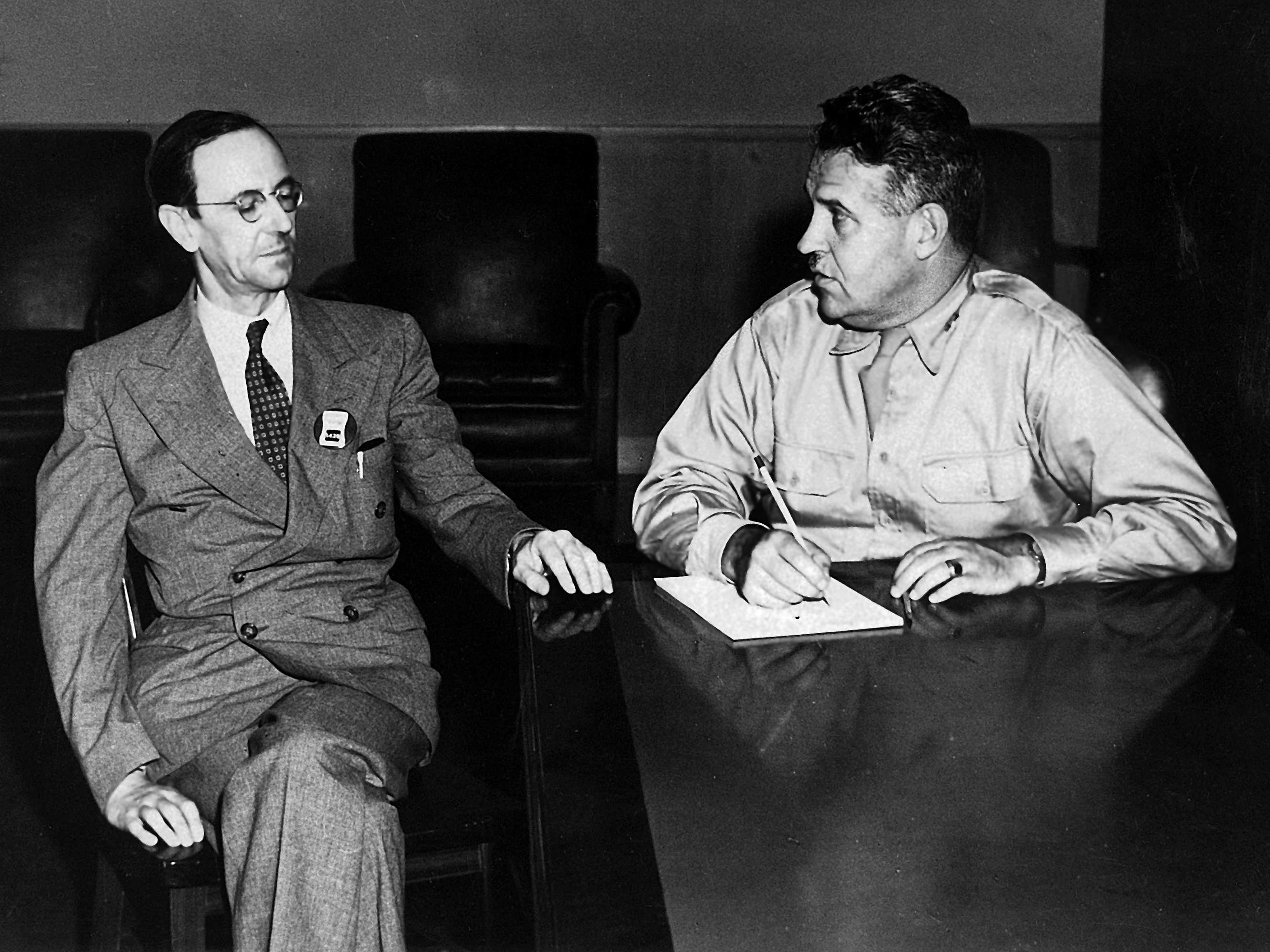 James Chadwick (left) with Major General Leslie R. Groves, Jr.